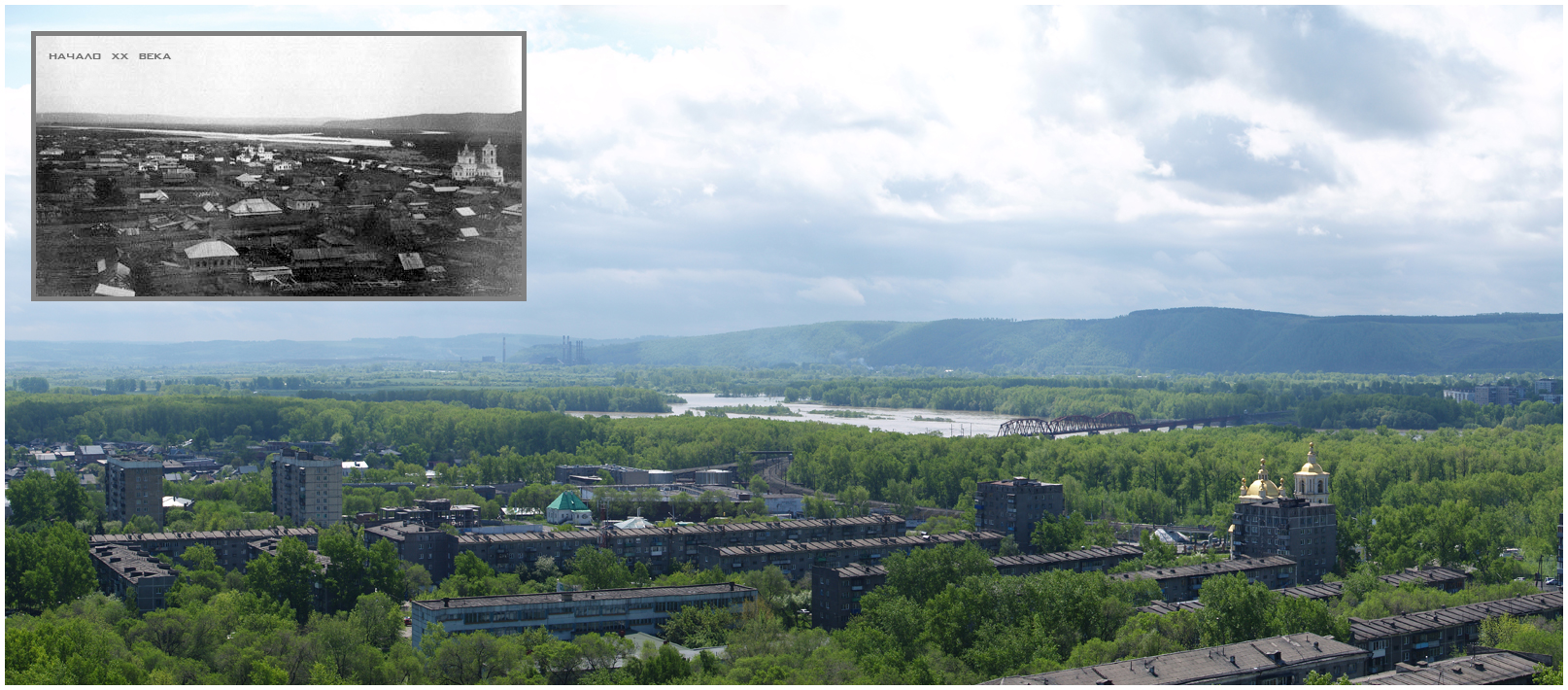 A comparative view of the Kuznetsk district Novokuznetsk pictured in 2009, and in the photo of the early twentieth century.